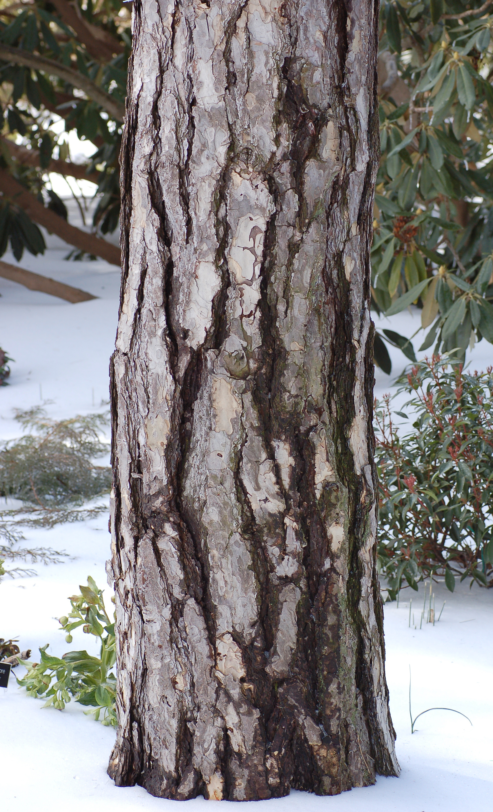 Photograph of the trunk of the Austrian Pineen (Pinus_nigra en ). Photo taken at the Tyler Arboretum where it was identified.